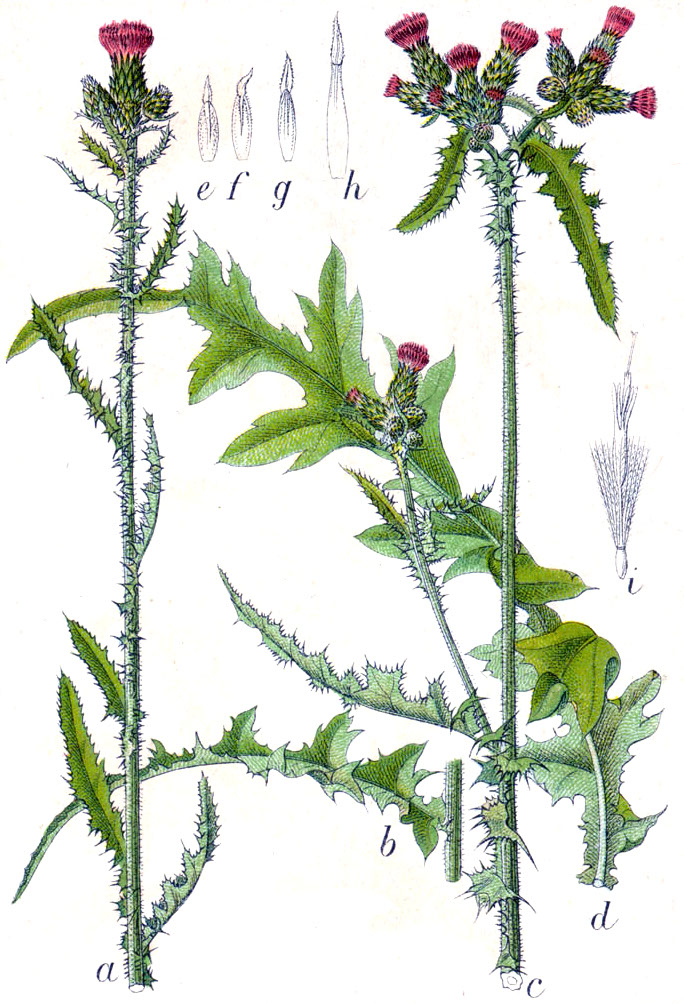 Cirsium palustre (L.) Scop., syn. Carduus palustris L. Original Caption Moor-Distel, Carduus palustris